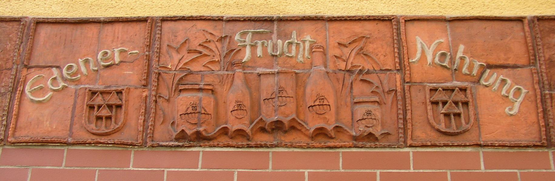 Relief in Oranienburg-Eden in Brandenburg, Germany